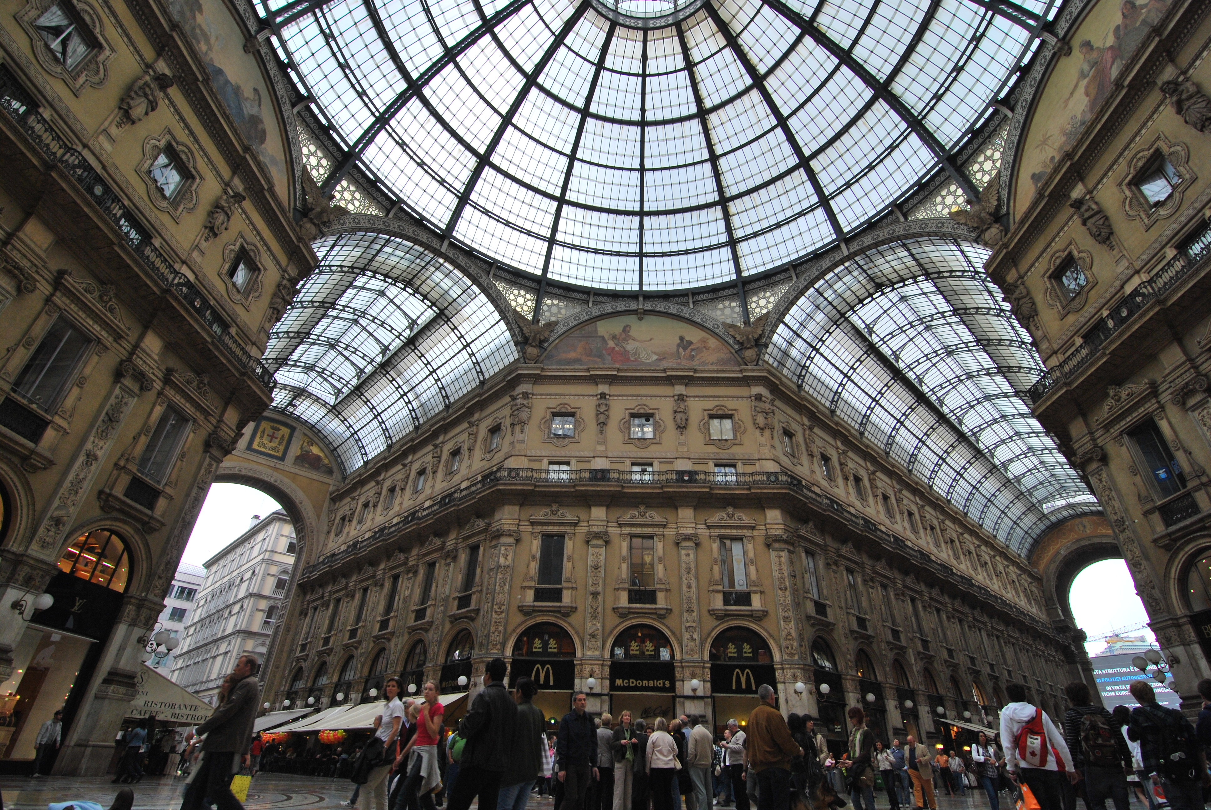 Galleria Vittorio Emanuele II Milan May 2009